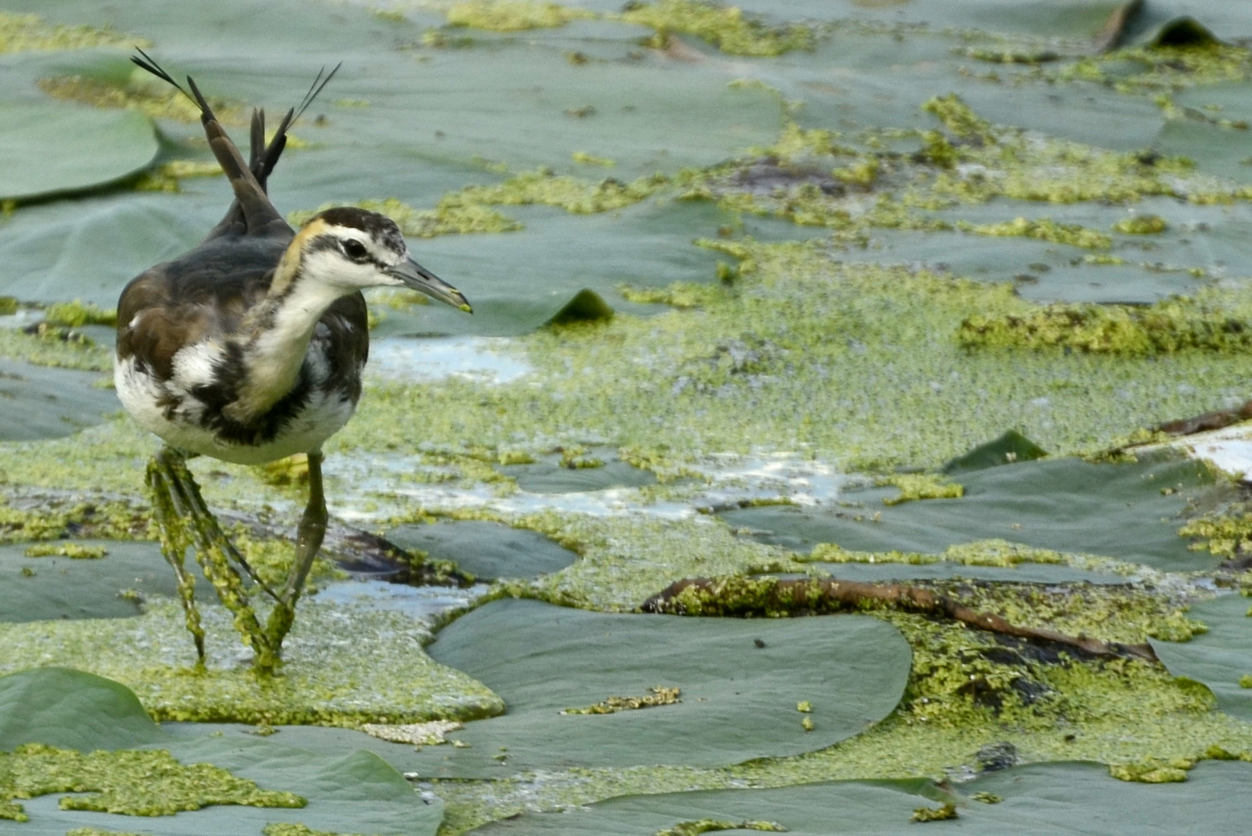 Pheasant-tailed jacana (Hydrophasianus chirurgus) from Aranthangi_Pudukkotai District_Tamil Nadu